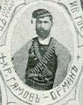 Portrait of IMARO member Hristo Gyamov from Orman